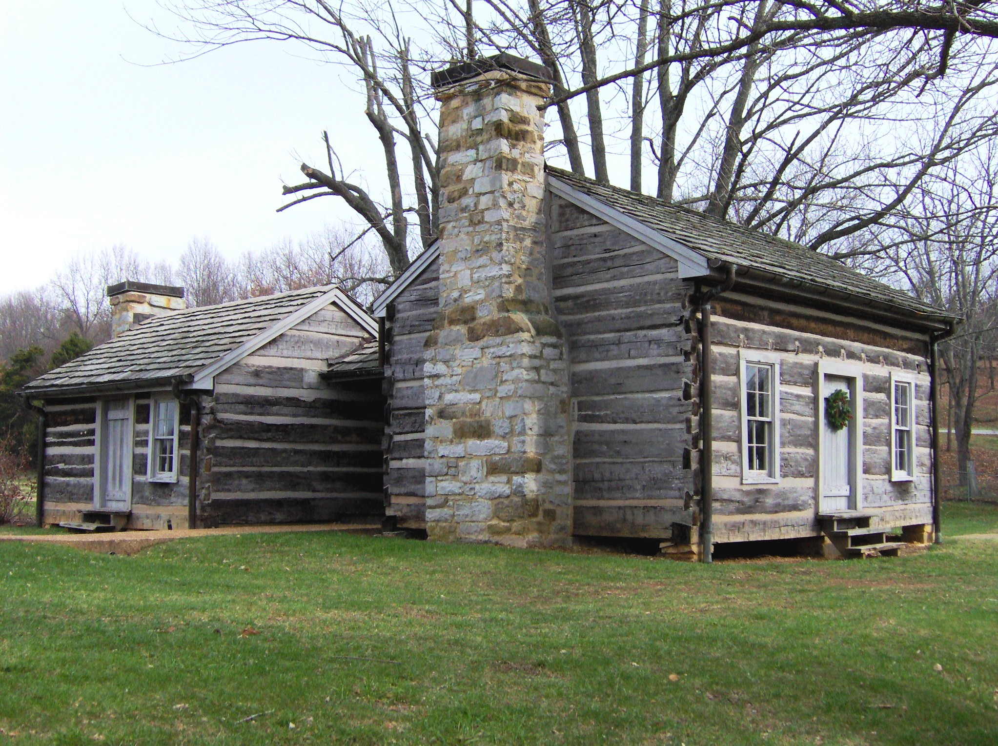 The Cordell Hull Birthplace, near Byrdstown, Tennessee in the Southeastern United States. Hull (1871-1955) served as U.S. Secretary of State of President Franklin D. Roosevelt and played a pivotal role in the creation of the United Nations. His 1945 Nobel Peace Prize is on display in a museum adjacent to the cabin. The cabin and museum are both part of Cordell Hull Birthplace State Park.